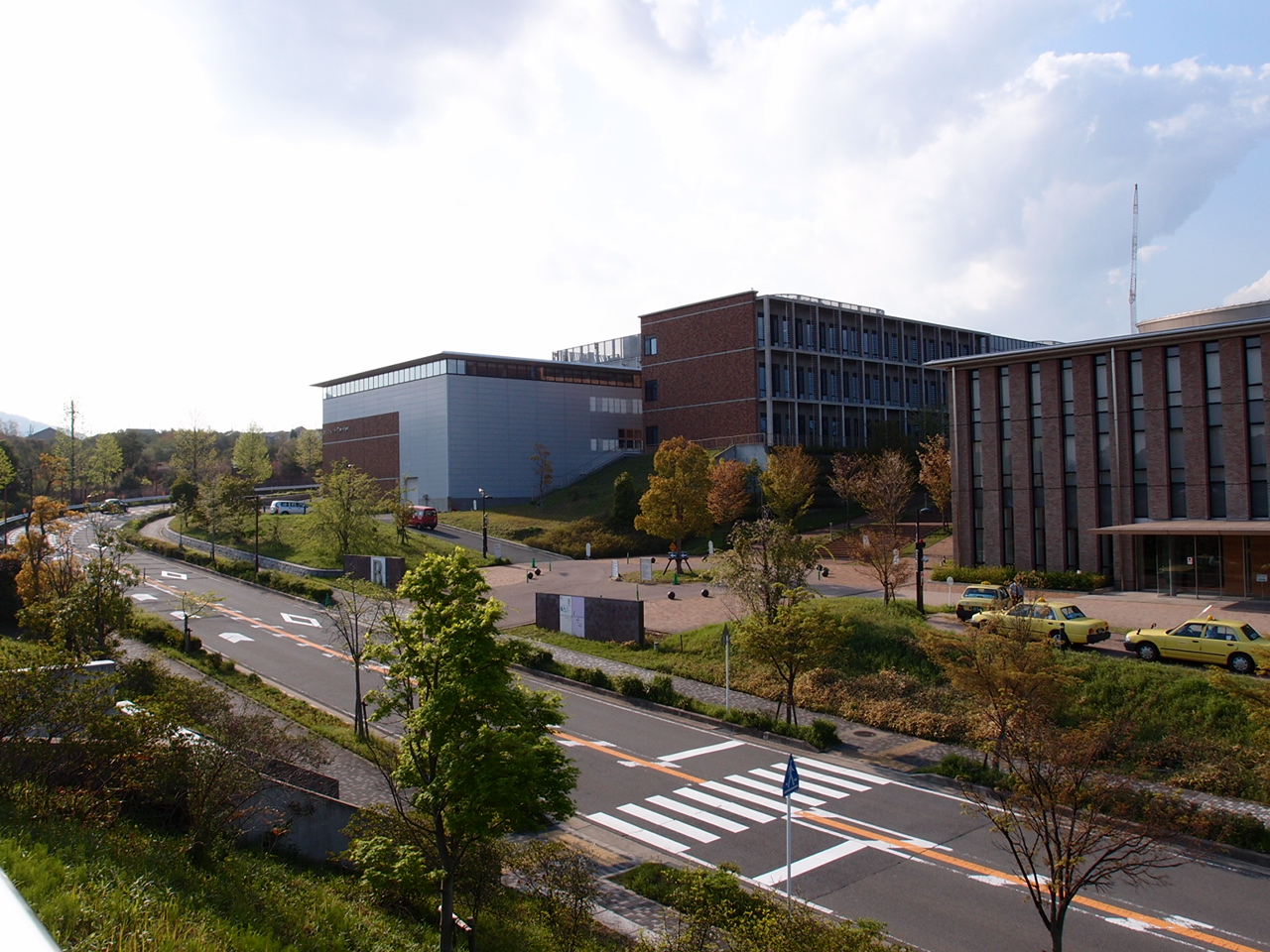 A view of Katsura Campus of University of Kyoto.